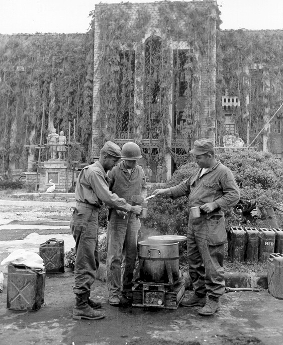 Members of Task Force Indianhead set up hot coffee on the capitol ground less than 24 hours after the liberation of the North Korean capital, Pyongyang, Korea.